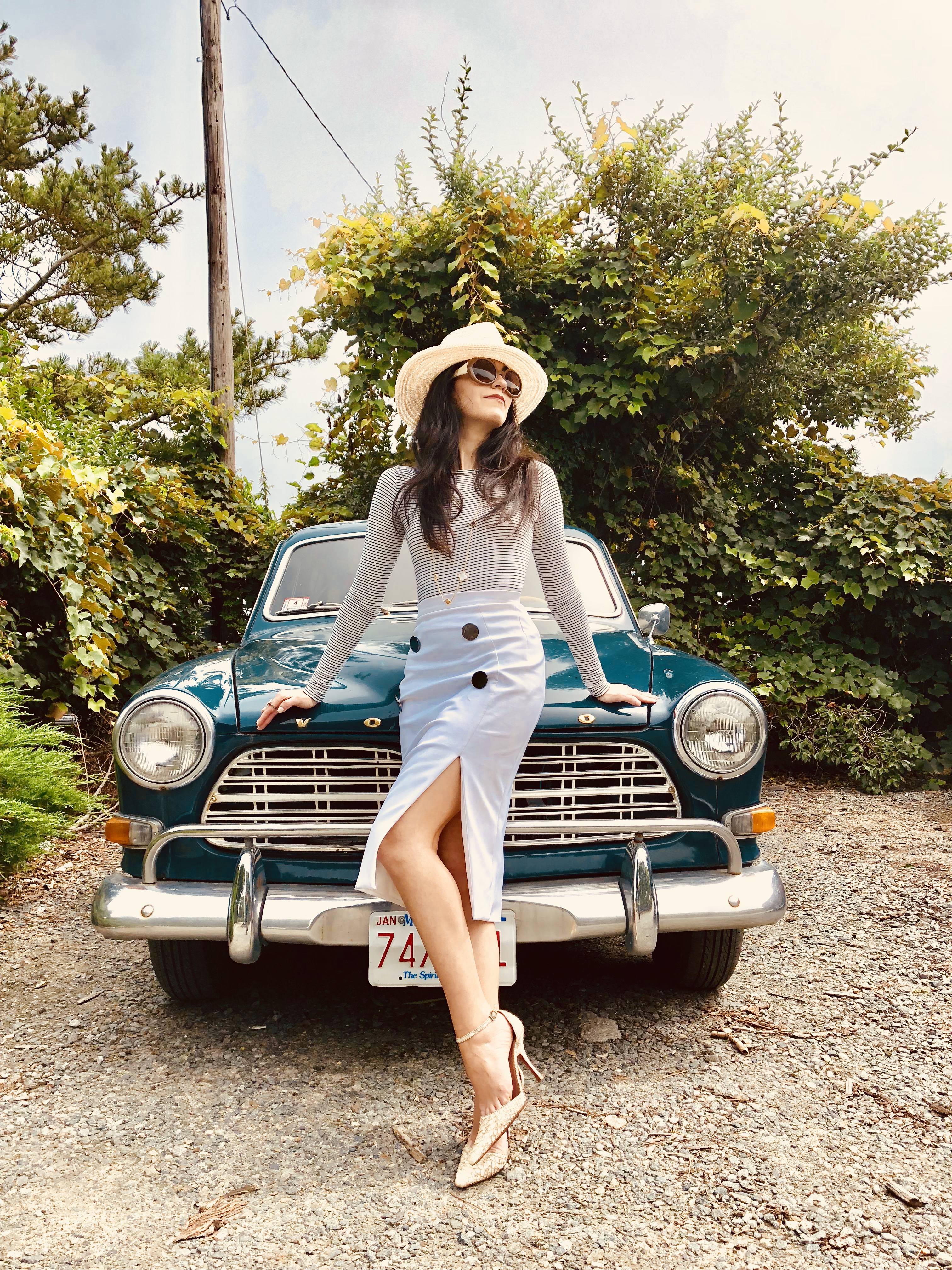 Victoria baker